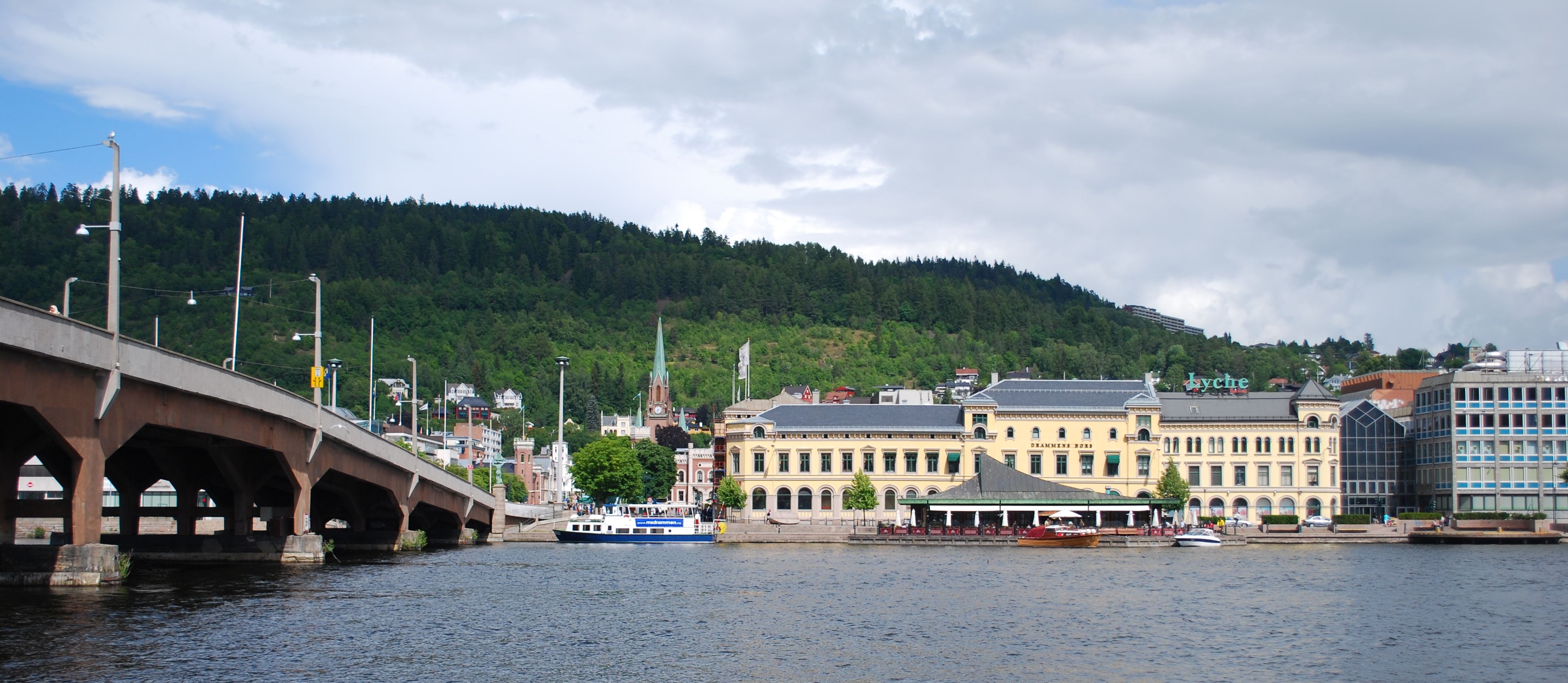 Town Bridge and Bragernes docks, Drammen, Norway.